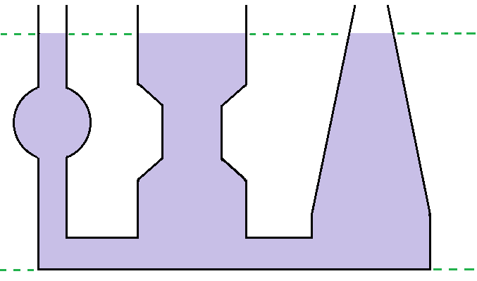 Mesmo nível Vasos comunicantes